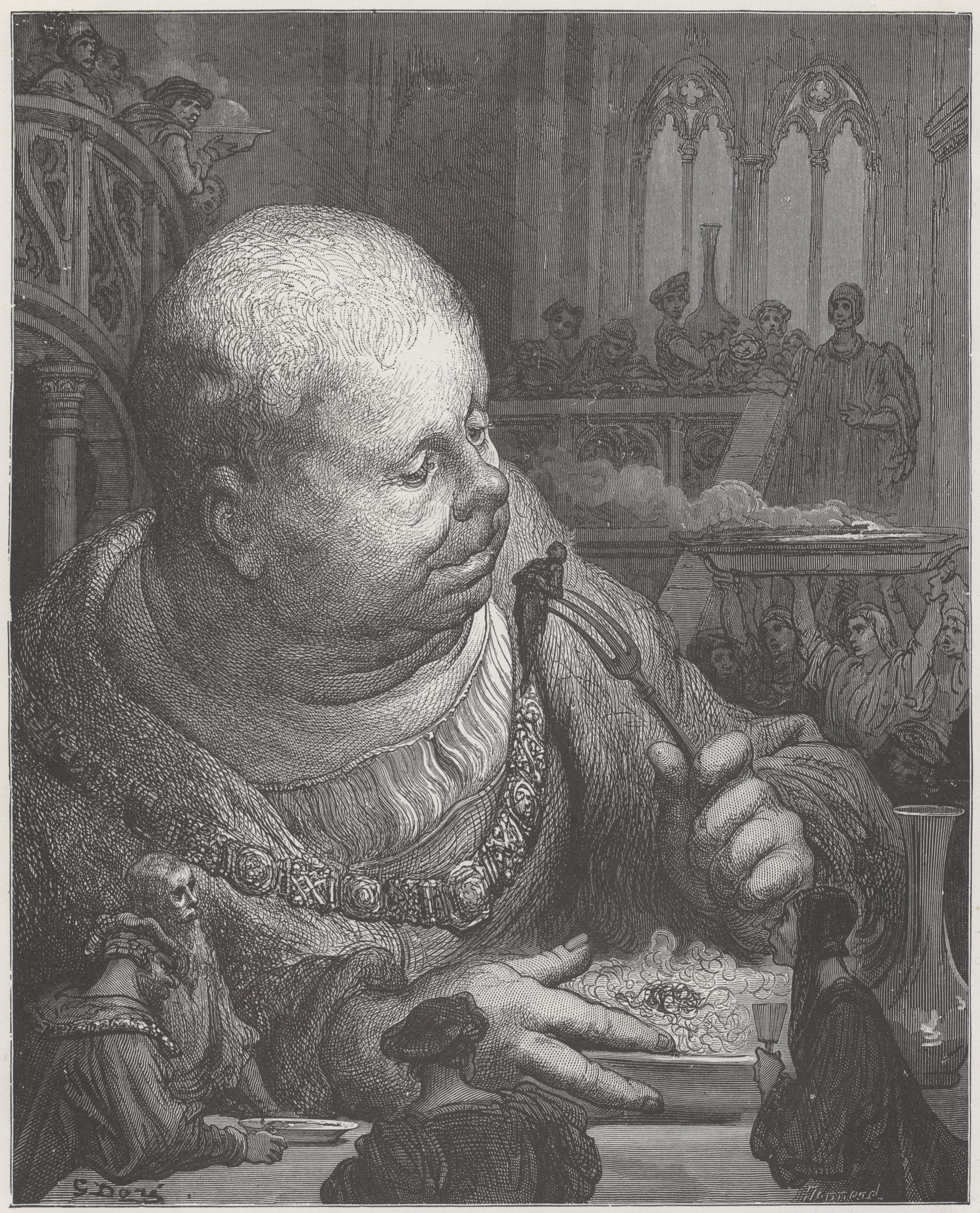 "”Pourquoy? dist Gargantua, ilz sont bons tout ce mois.” Et, tirant le bourdon, ensemble enleva le pellerin & le mangeoit très bien." (source, source). English translation: "”Why not? said Gargantua, they are good all this month.” Which he no sooner said, but, drawing up the staff, and therewith taking up the pilgrim, he ate him very well." (source)Illustration for Gargantua by François Rabelais, published in Œuvres de Rabelais (Paris: Garnier Freres, 1873), Book I, vol. 1, ch. XXXVIII, opposite page 116 (direct link).